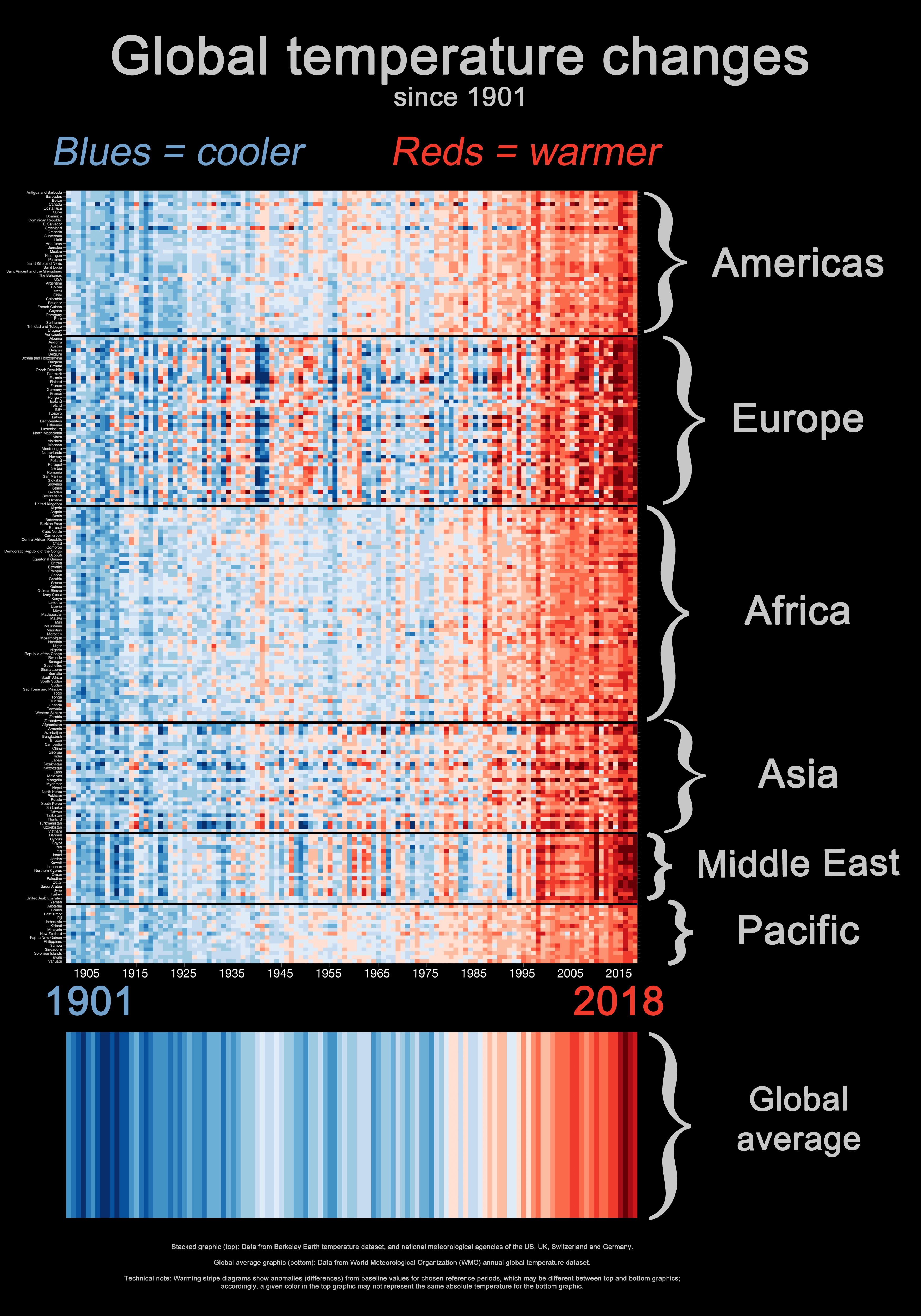 Top graphic: "stacked" Warming stripes showing annual mean temperatures for various countries (1901-2018), grouped by continent Bottom graphic: Warming stripes graphic depicting annual mean global temperatures (1901-2018, from World Meteorological Organization data) Original files combined in this graphic are shown and linked in the "Other versions" section, below. More complete descriptions of the two graphics are provided in the linked File: pages for those two images.